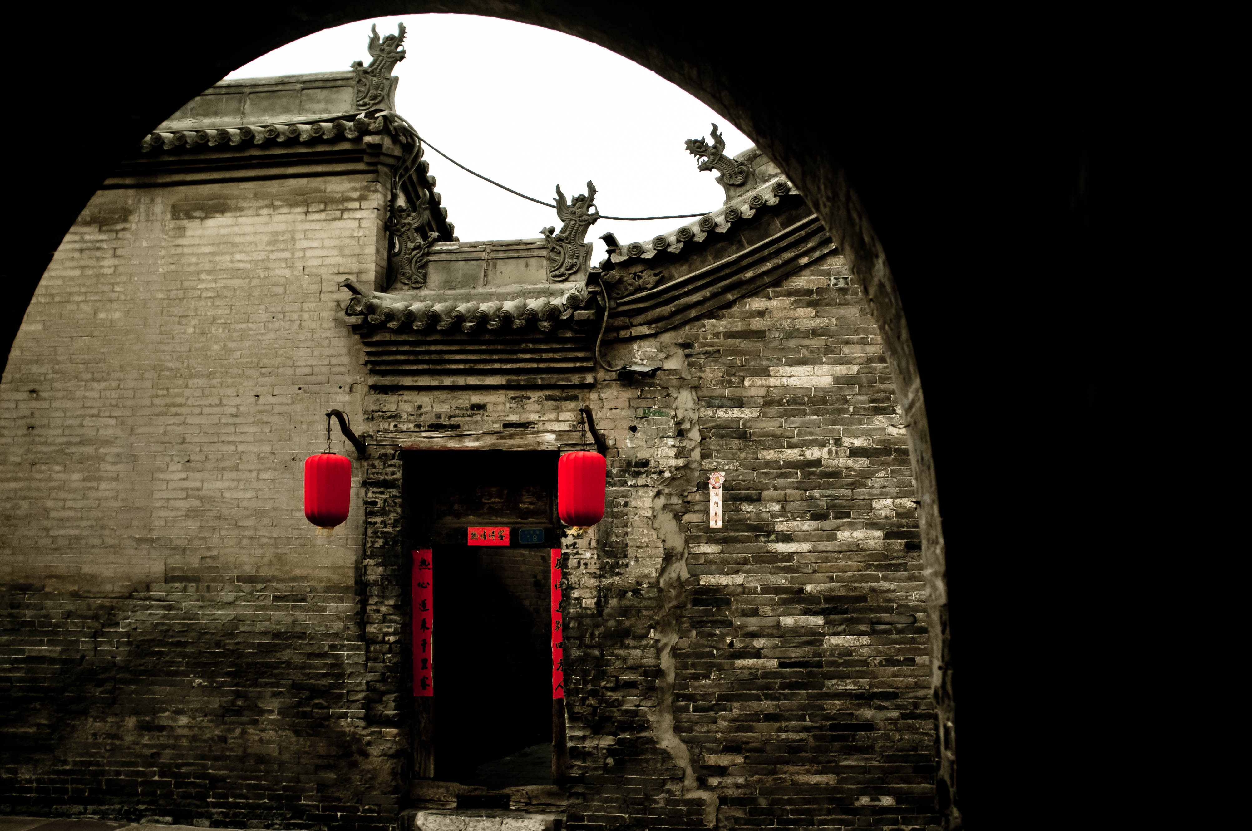 A door in a backyard in Pingyao with beautiful red Chinese lanterns.